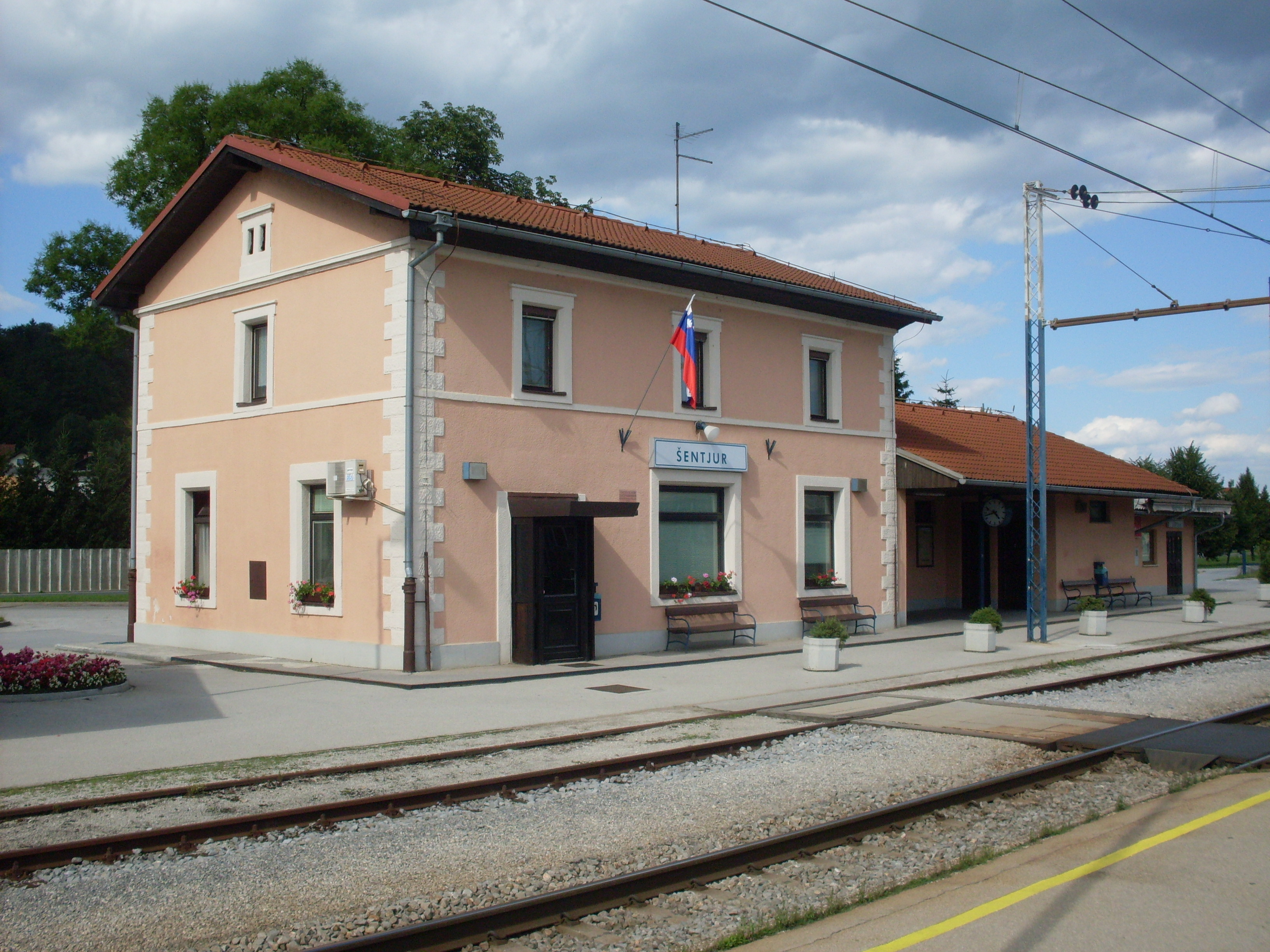 Train station in Šentjur